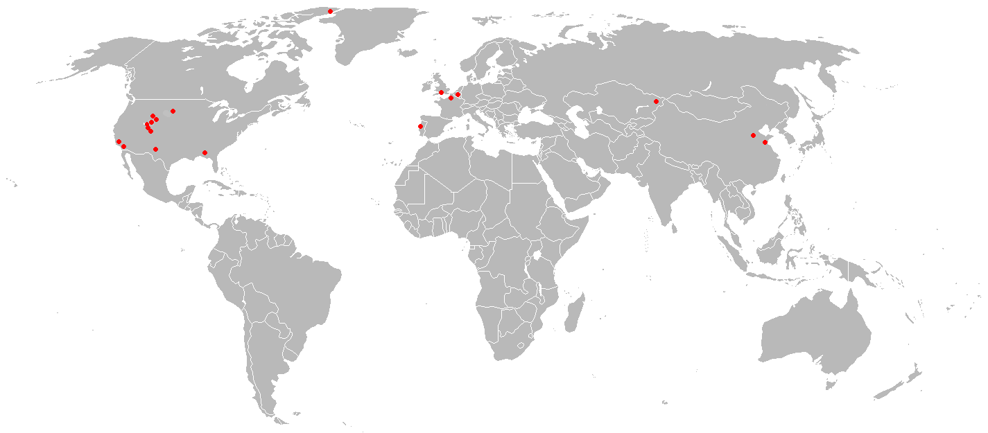 Map showing the places in the world where Miacis fossils have been found.